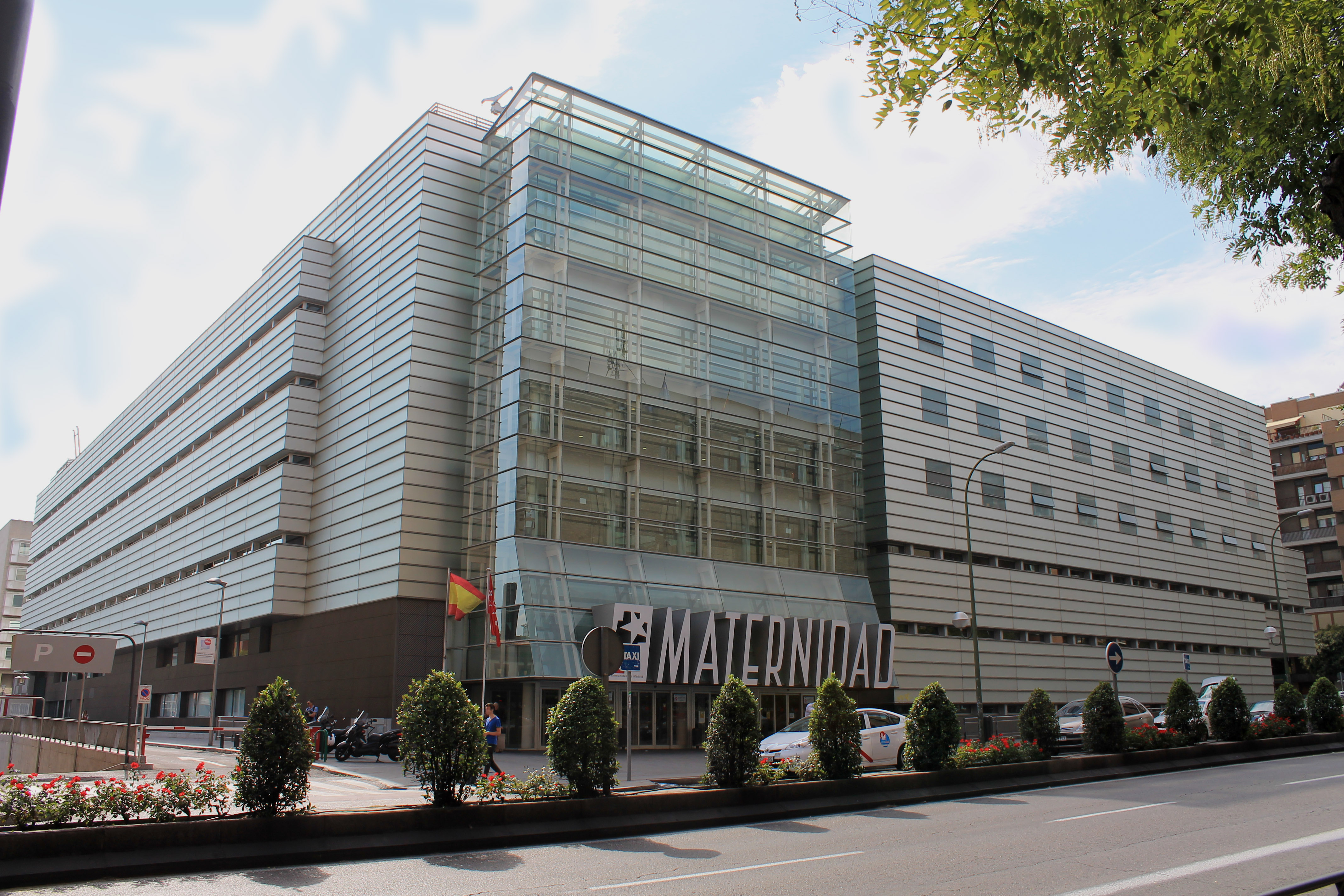 Façade of Gregorio Marañón Maternity and Children's Hospital in Madrid (Spain).